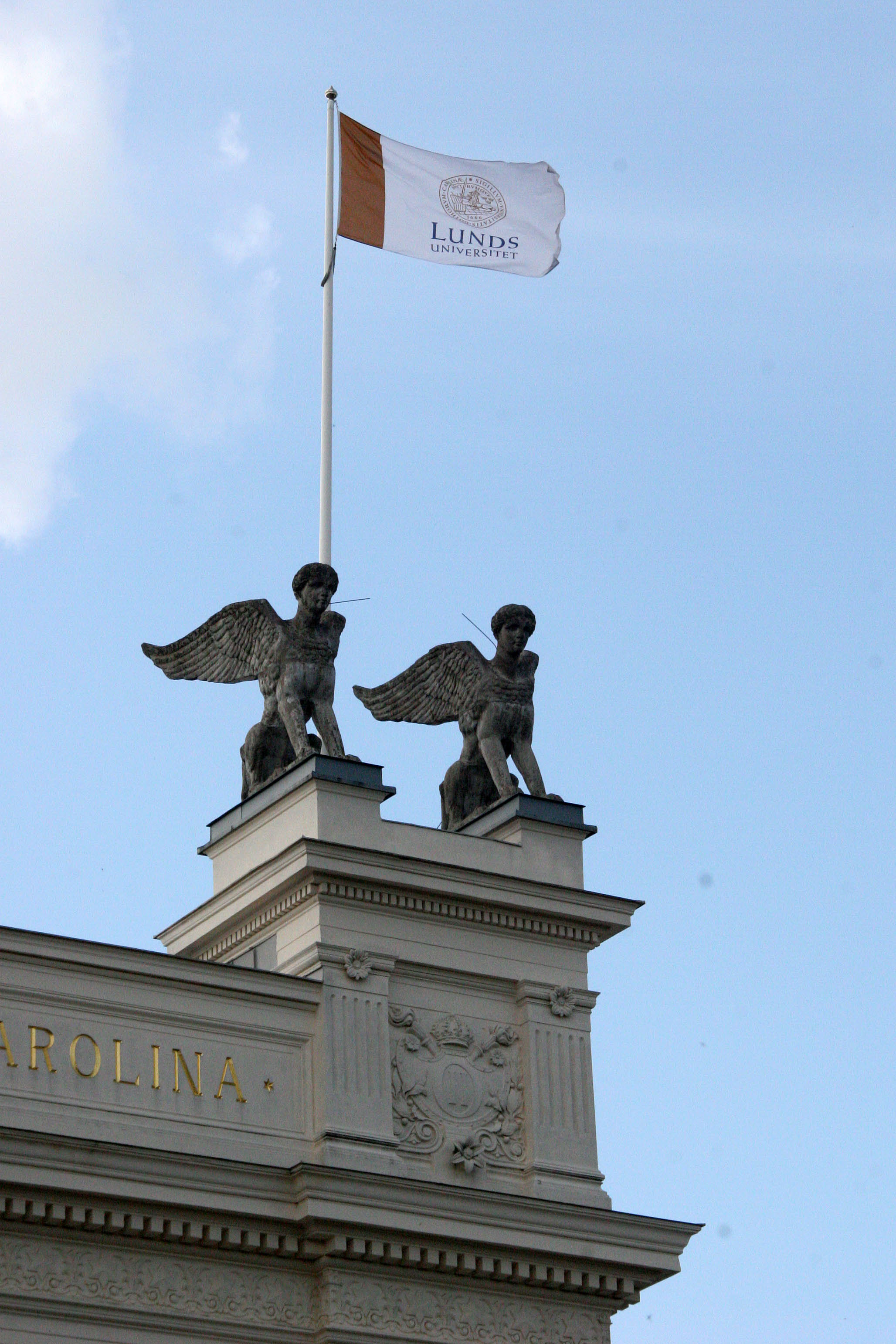 Two out of four sphinxes on top of the main building of Lund University